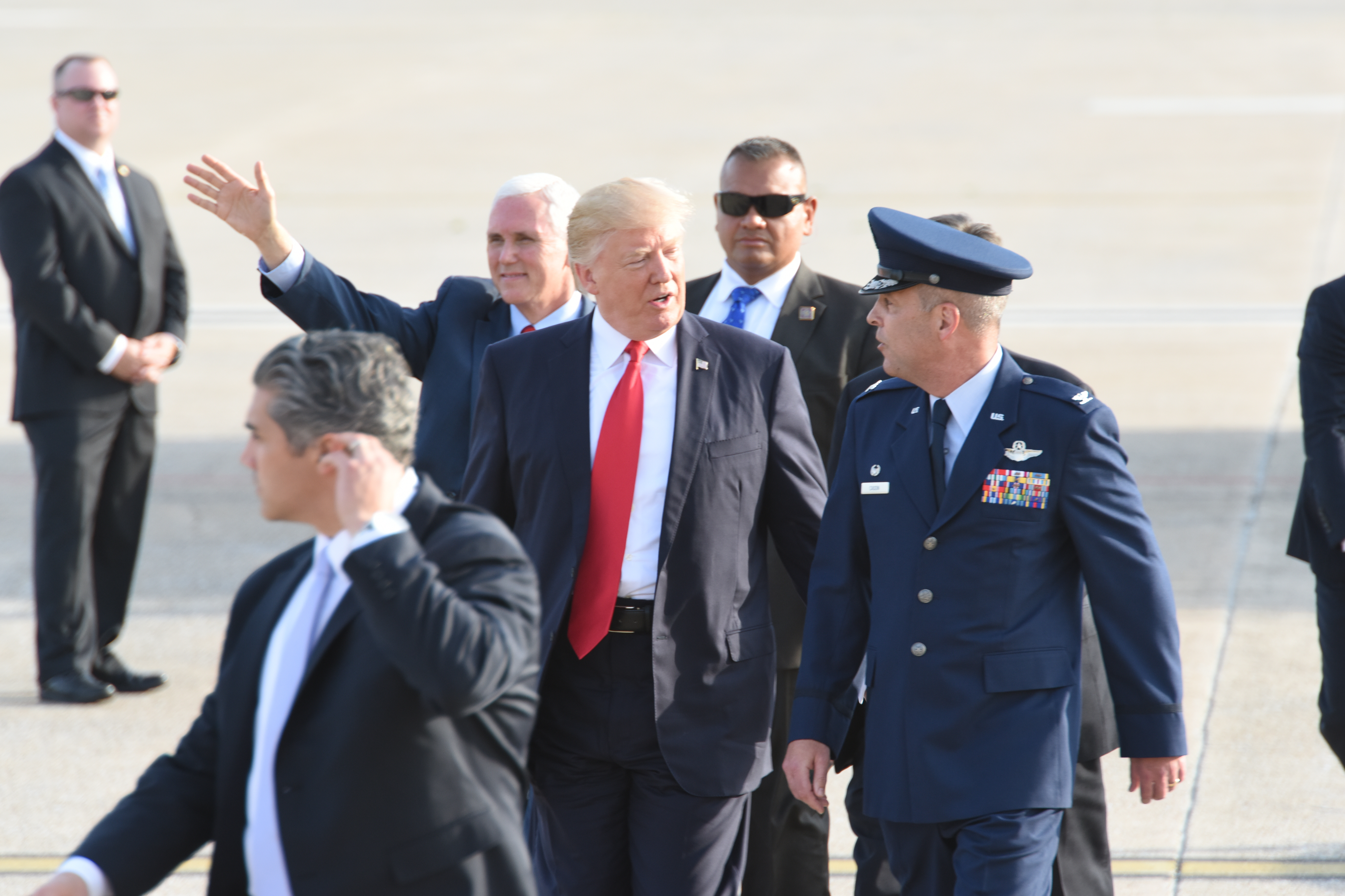 President Donald J. Trump and Vice President Mike Pence walk with 193rd Special Operation Wing Commander Benjamin “Mike” Cason over to 193rd SOW Airmen, and Airmen’s family and friends, to shake their hands, Middletown, Pennsylvania, April 29, 2017. The president and vice president landed at the 193rd SOW and were on their way the Harrisburg Farm Show Complex for President Trump’s 100th day rally when they made time to greet those that awaited their arrival. (U.S. Air National Guard Photo by Master Sgt. Culeen Shaffer/Released)